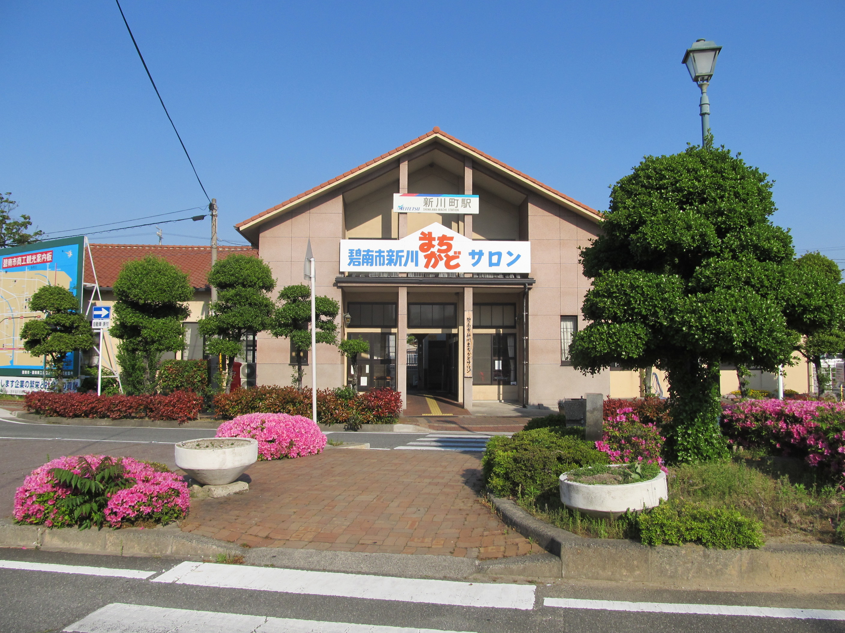 Nagoya Railroad Mikawa Line Shinkawamachi Station Building